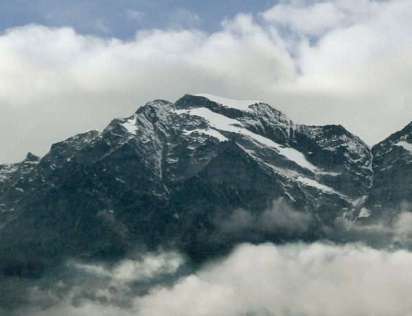 Cima di Jazzi (3804 m) Picture taken and edited by user Idefix October 6, 2006